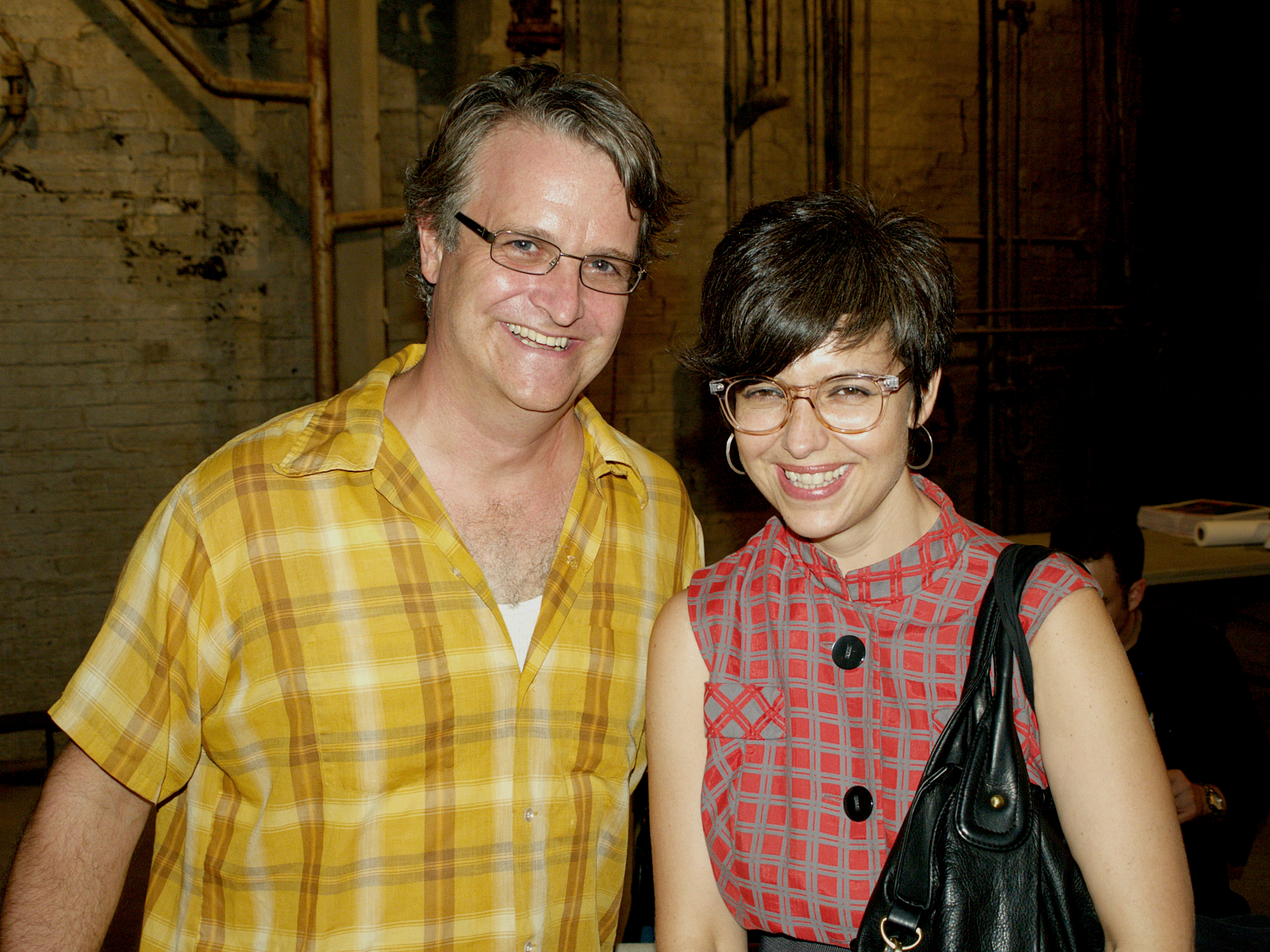 Theodore Hamm and Monica de la Torre at the Brooklyn Rail's launch party for John Reed's Tales of Woe (MTV Press 2010)